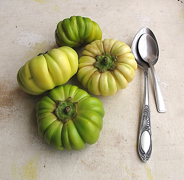 Solanum aethiopicum, African eggplant called diakhato or jaxatu in Wolof (pronounced the same: diakhato is spelled from the French alphabet, jaxatu is spelled from the official Senegalese alphabet), Aubergine africaine (French), somewhat bitter and a popular fresh ingredient for traditional African cuisine. Local names vary between languages and countries. Shown here as sold in Senegal street markets and ready to cook; size as compared to teaspoon and tablespoon.